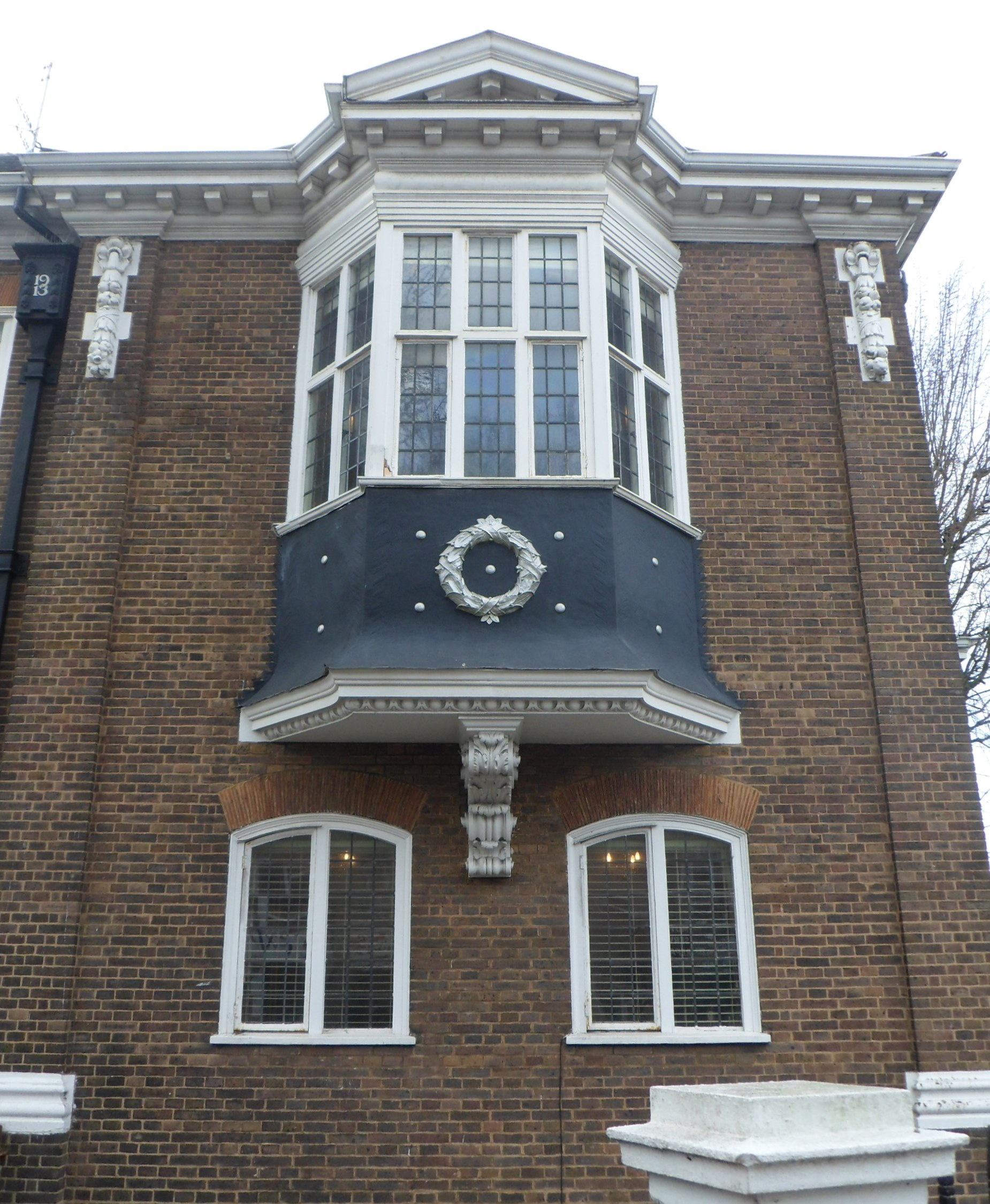 Ralli Hall, 81 Denmark Villas, Hove, City of Brighton and Hove, England. Built as the church hall of All Saints Church in 1913; now a multipurpose community facility owned by the Brighton & Hove Jewish Community group. This view shows one of the oriel windows in the east elevation. Listed at Grade II by English Heritage (NHLE Code 1298671)